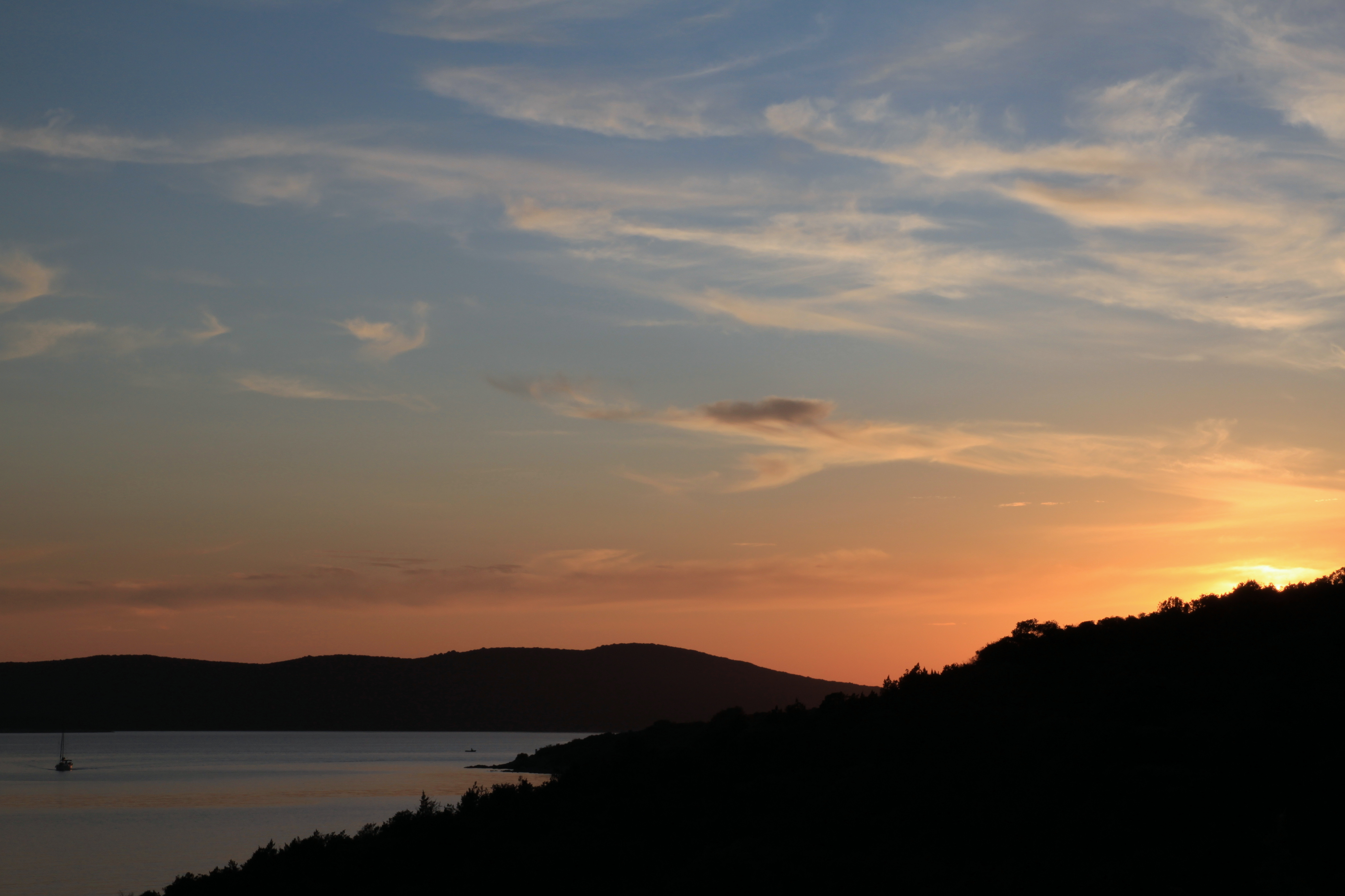 Ugljan - Sunset.